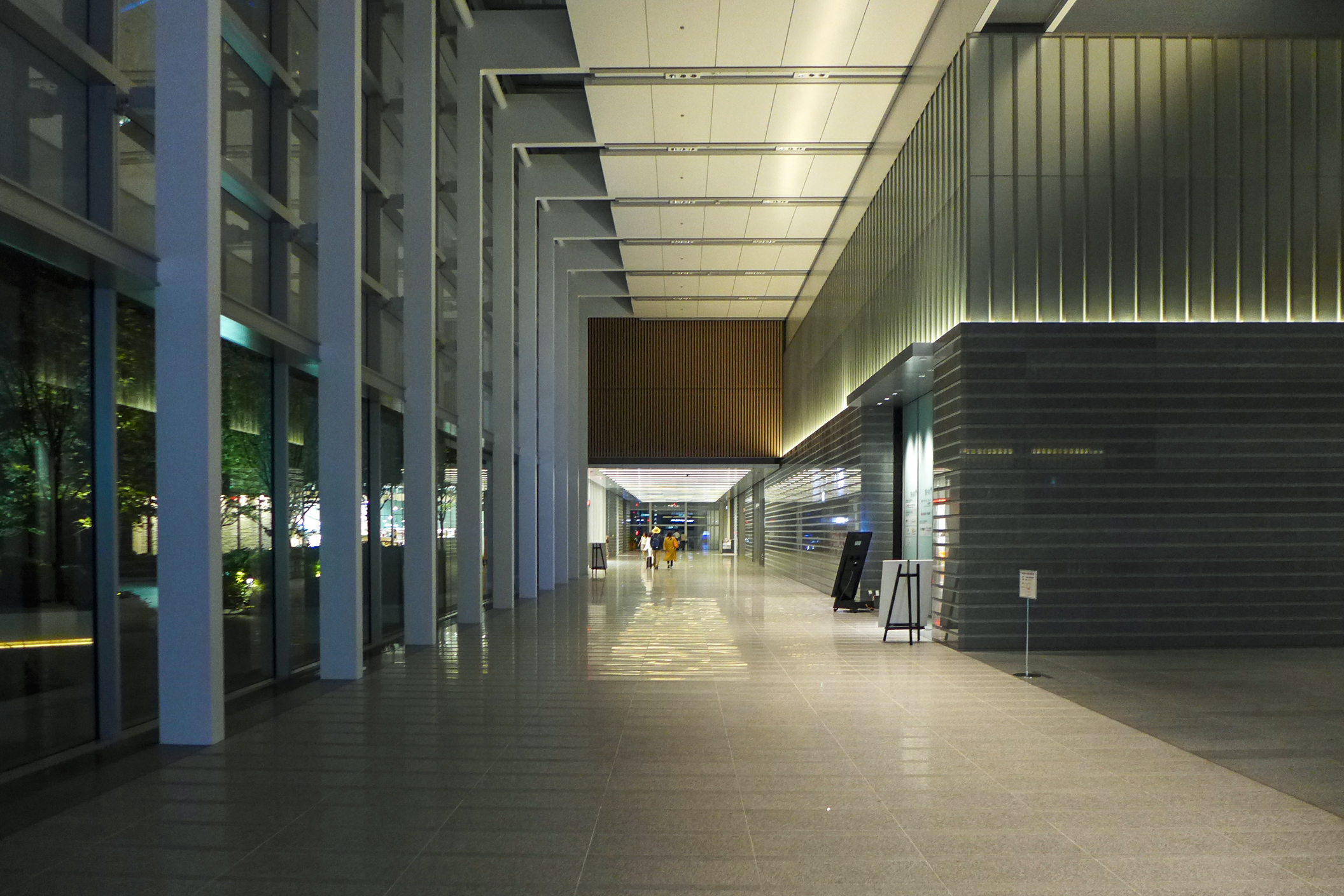 JR Gate Tower Level 15 Sky Corridor